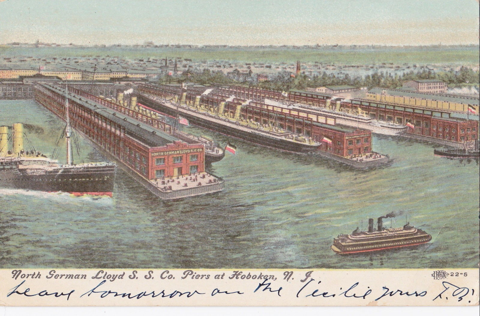 German ships docked at Hoboken New Jersey, 1909